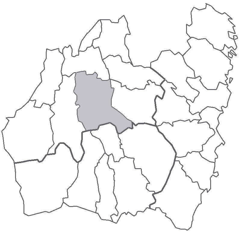 Map describing the location of Western Hundred in the province of Småland, Sweden.